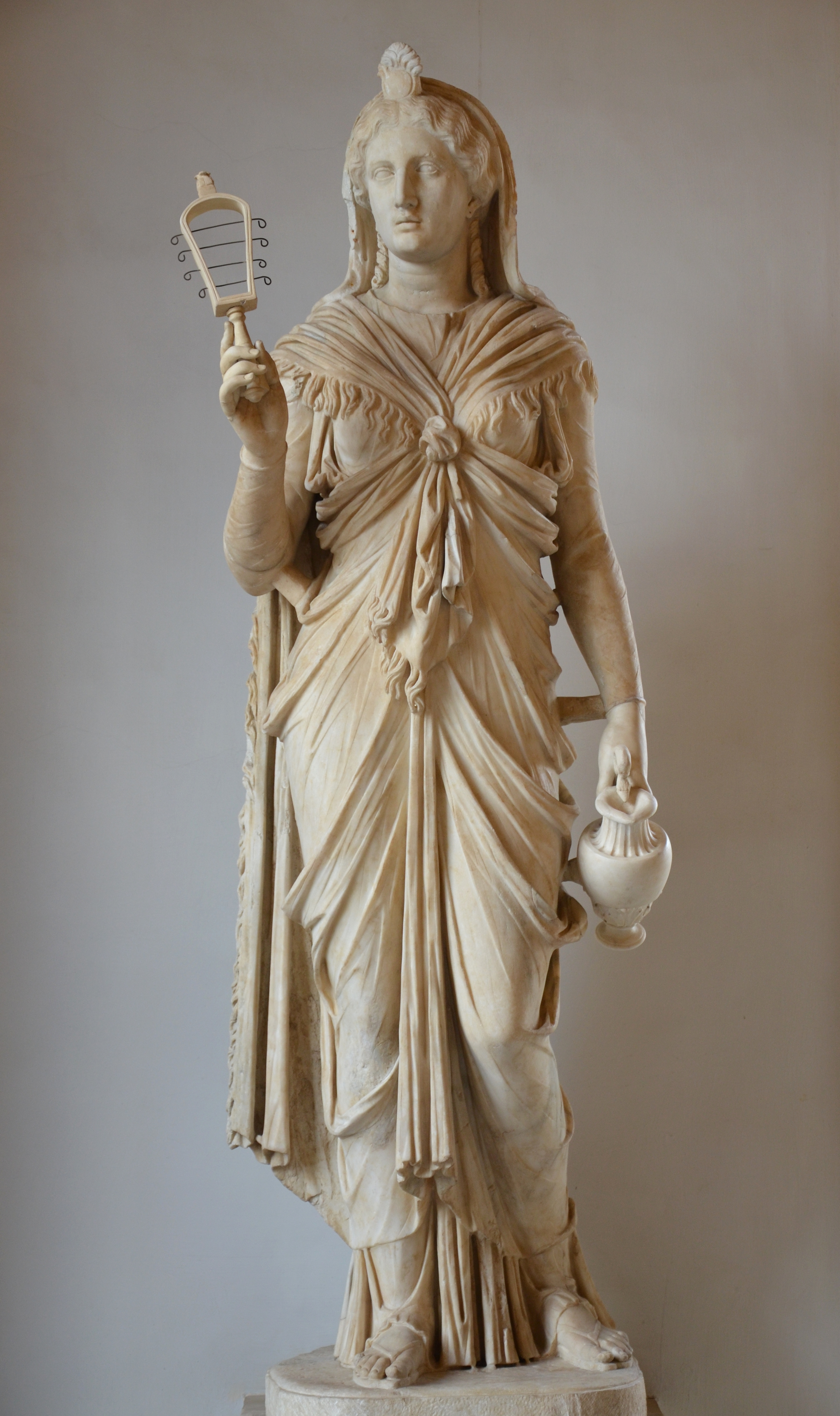 The figure places her weight on her left and moves her left slightly back and to the side. In her right hand she holds a small jug by her side (this object is the product of a restoration) and in her left a sistrum (a musical instrument). Originally an Egyptian goddess, the worship of Isis spread to the Greco-Roman world in the 4th century B.C. after the conquest of Alexander the Great over Egypt. Here the goddess is shown in a long chiton, a typical style of Greek dress. She also wears a mantle that ties over her breasts. A piece of the mantle is used as a veil to cover her head, which is also adorned with a sun disk. The work dates to the first century A.D. From Villa Adriana.